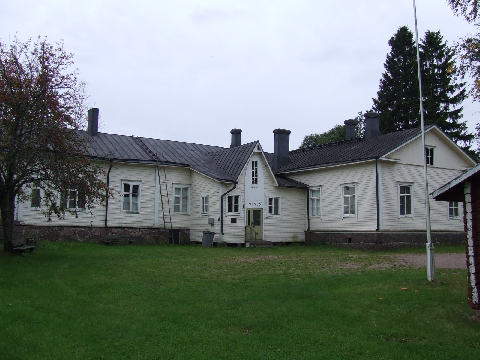 Vehkalahti Local History Museum in Husula, Hamina, Finland. The building was formerly a school.